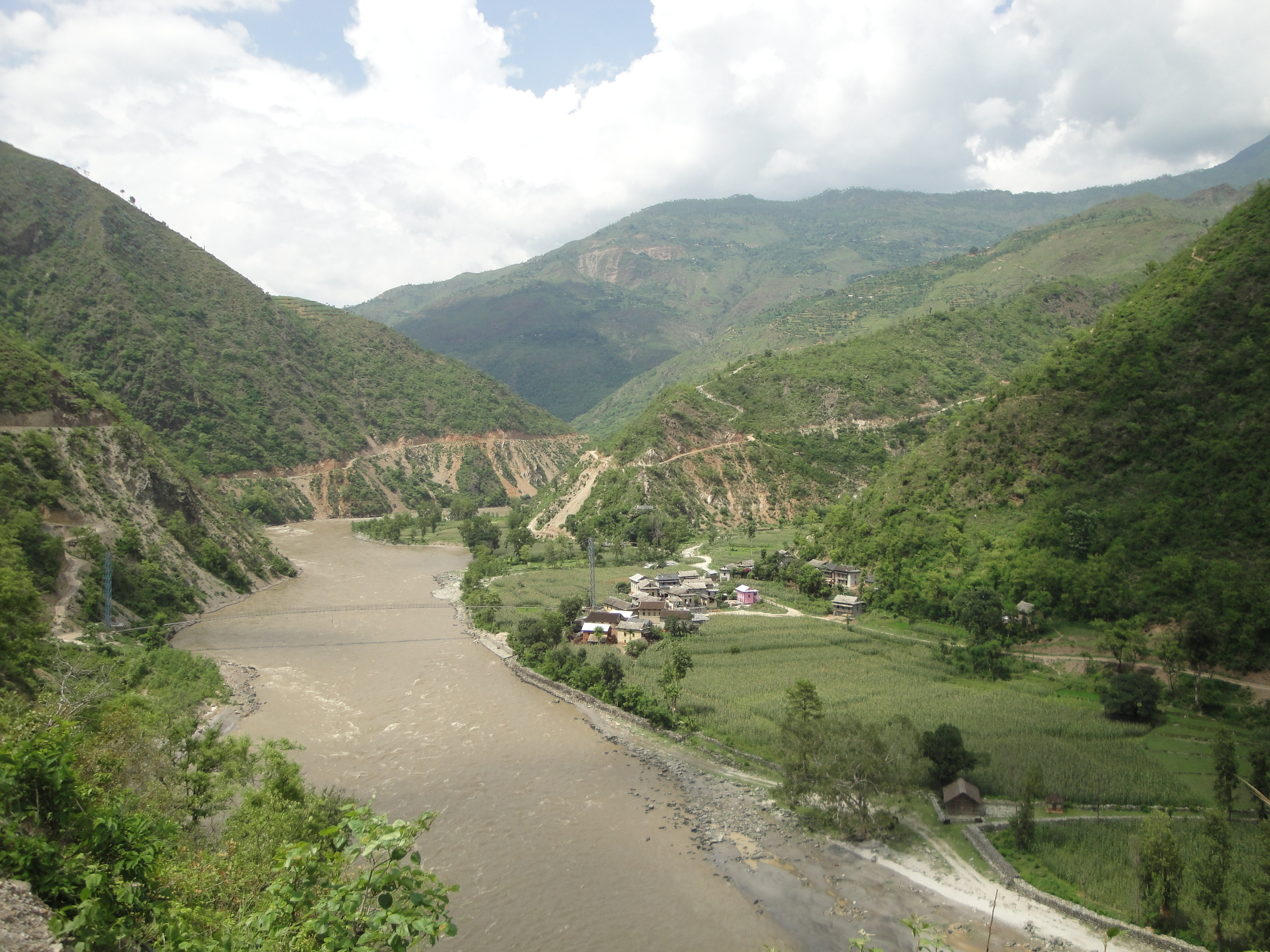 Village in Kabhrepalanchok district nepal. Picture by:Madhusudan Rayamajhi